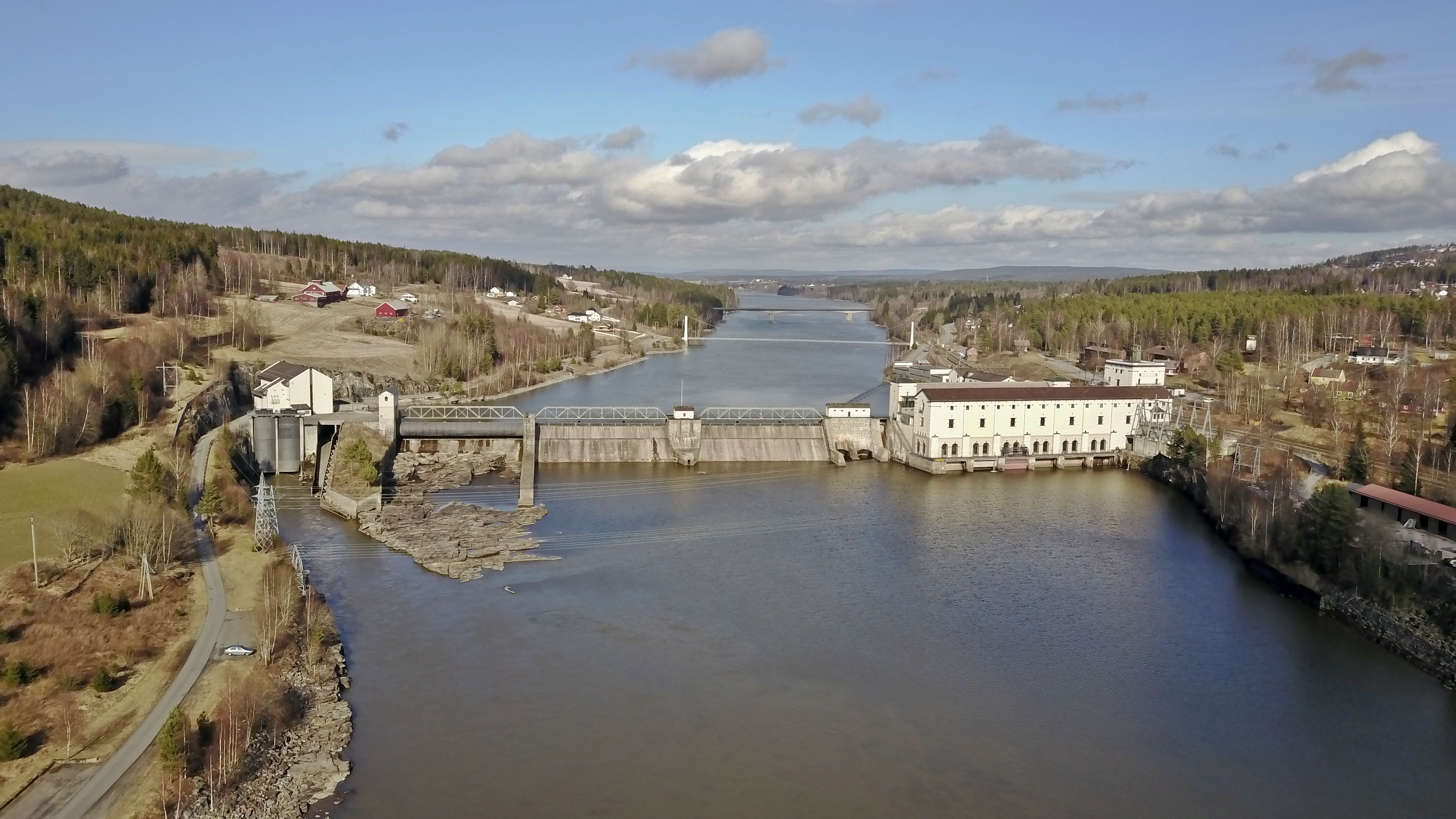 Rånåsfoss power station